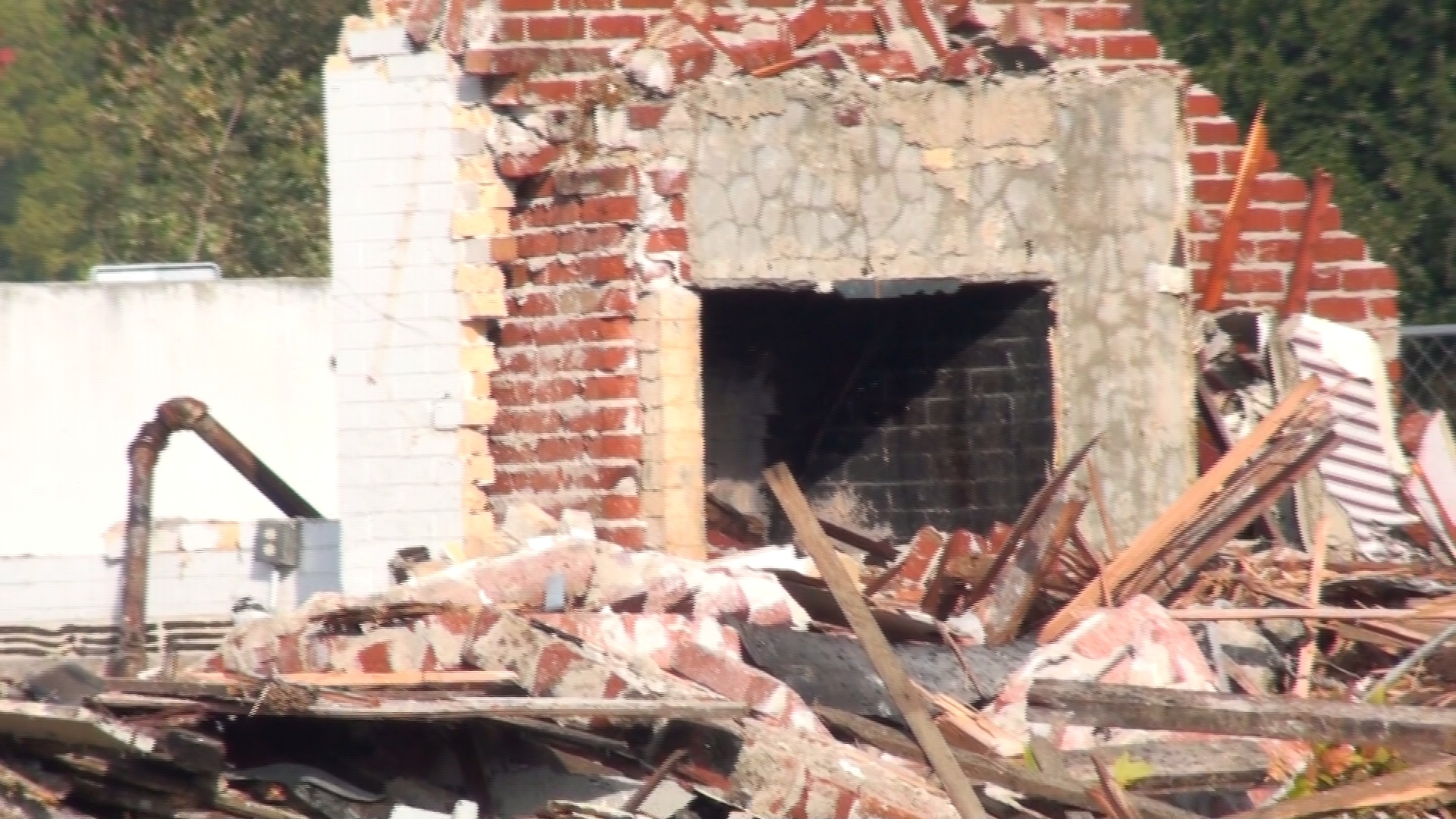 The fireplace remains standing in the rubble of Wolfe Manor in Clovis, CA